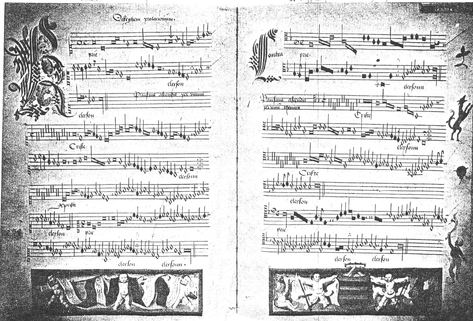 Manuscript page of "Kyrie" from the "Missa Prolationum" by Johannes Ockeghem, from the Chigi Codex (Chig. C. VIII 234, music09, NB.03), late 15th century